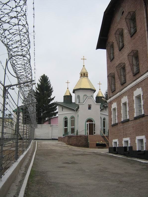 The church of St. John Remand Prison, Chortkiv, Region of Ternopil, Ukraine.